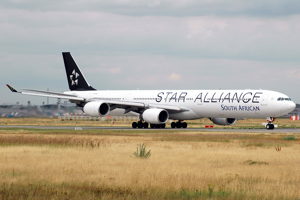 ZS-SNC, a South African Airways Airbus A340-600 in Star Alliance livery taking off from runway 18 at Frankfurt Rhein-Main Airport.